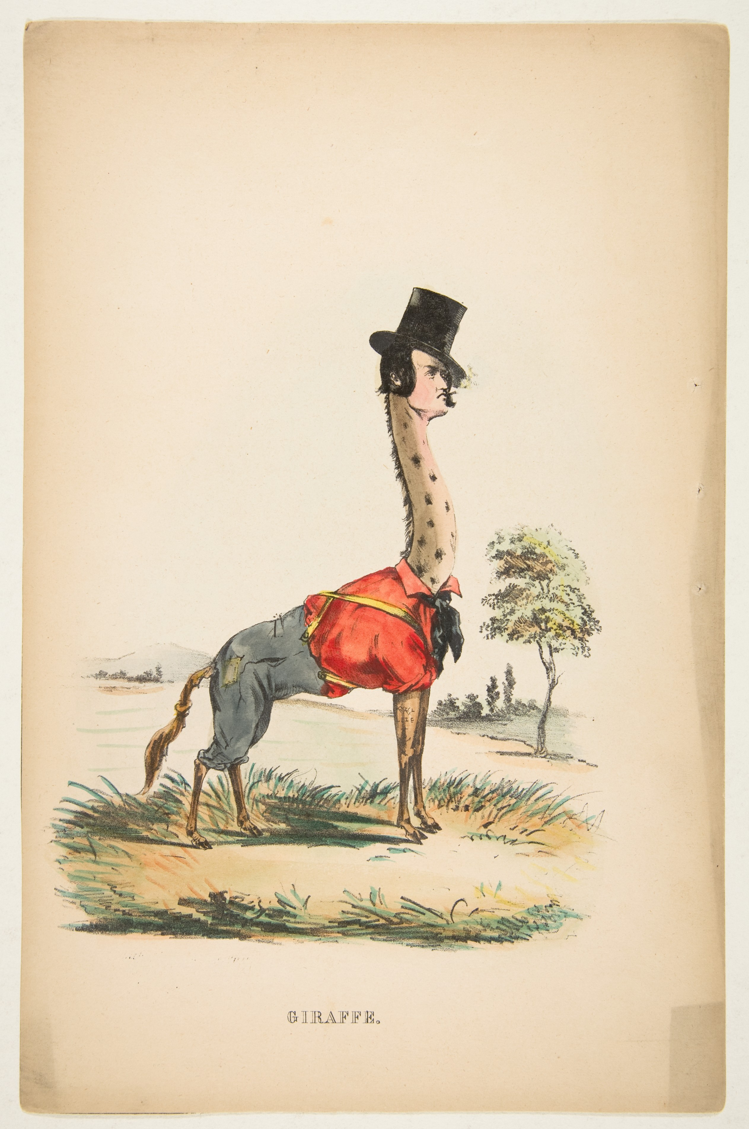 Print; Prints